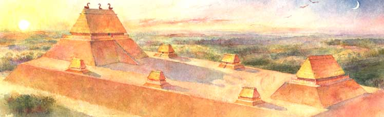 An artists conception of the Emerald Site, (22 AD 504), a Plaquemine culture mound site in Adams County, Mississippi inhabited from 1200 to 1700 CE.